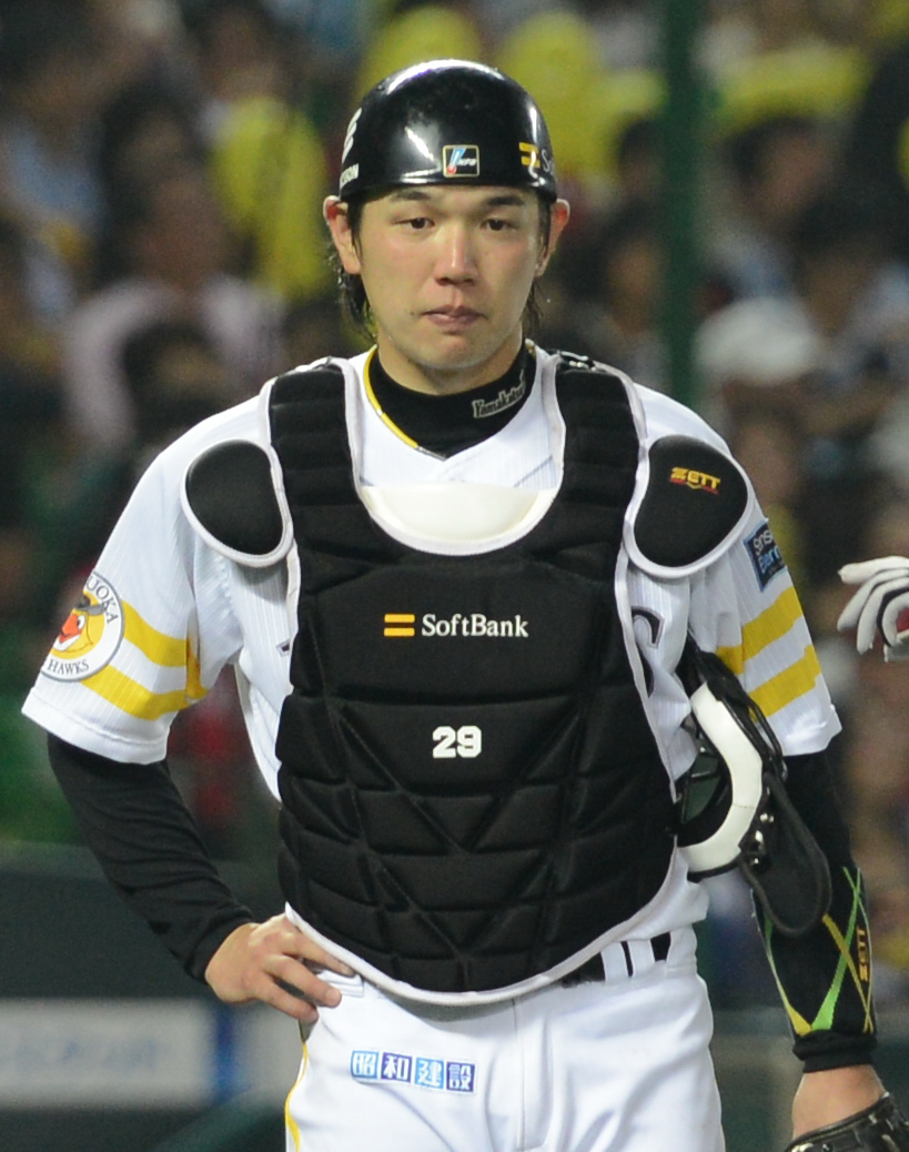 Katsuki Yamazaki, catcher of the Fukuoka SoftBank Hawks, at Fukuoka Dome.